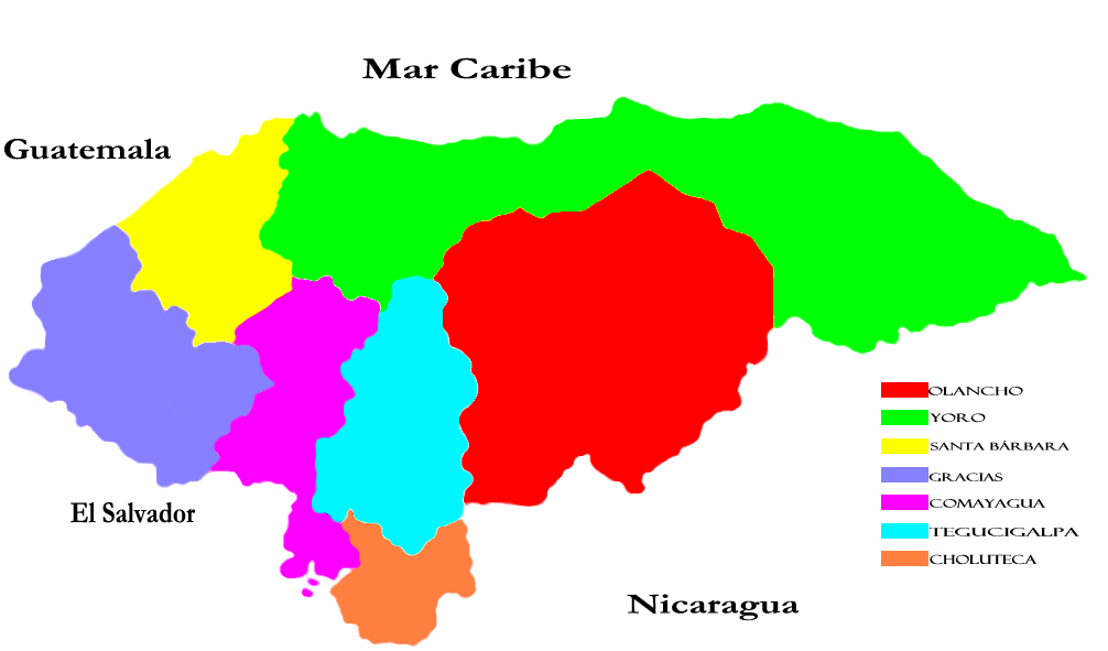 Original Honduran 7 departments made ​​by the Head of State, Dionisio de Herrera